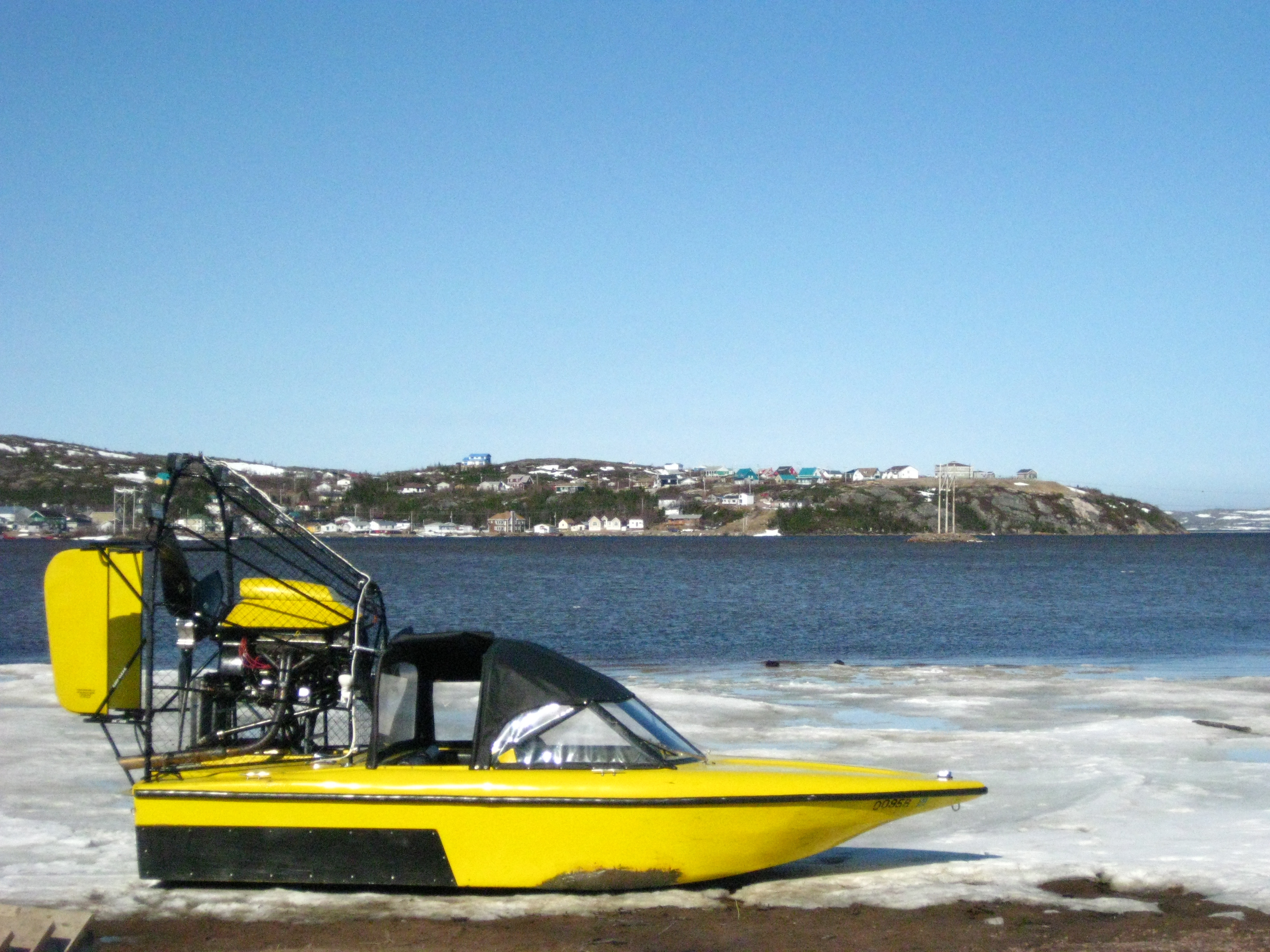 Ste Augustine River seen from Pakua Shipi.